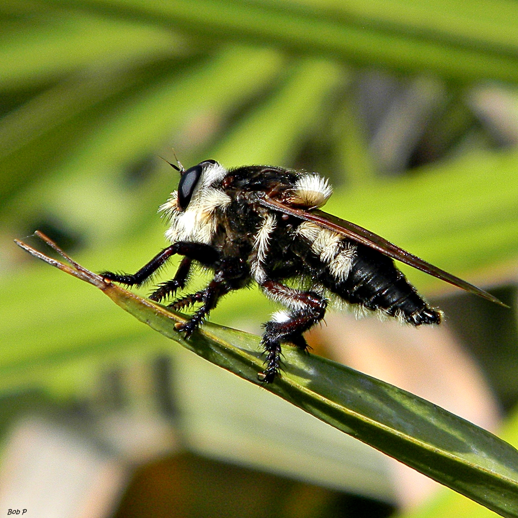 I was buzzed by this large predatory super fly while in the scrub and managed to sneak up on it. It appears to be M. orcina and has less yellow than the M. bomboides (Florida bee killer) that I photographed previously. They mimic bumblebees and feed upon bees and wasps.